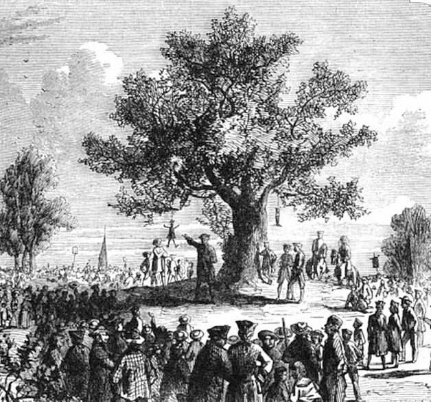 Cropped version of "The Colonists Under Liberty Tree," illustration from Cassell's Illustrated History of England, Volume 5, page 109 (1865).